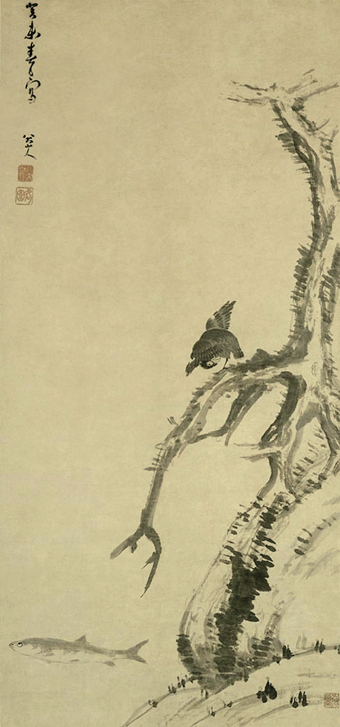 Mynah Bird on an Old Tree, 1703, by Zhu Da (Bada Shanren, 1626—1705). Hanging scroll, ink on paper. The Palace Museum, Beijing.